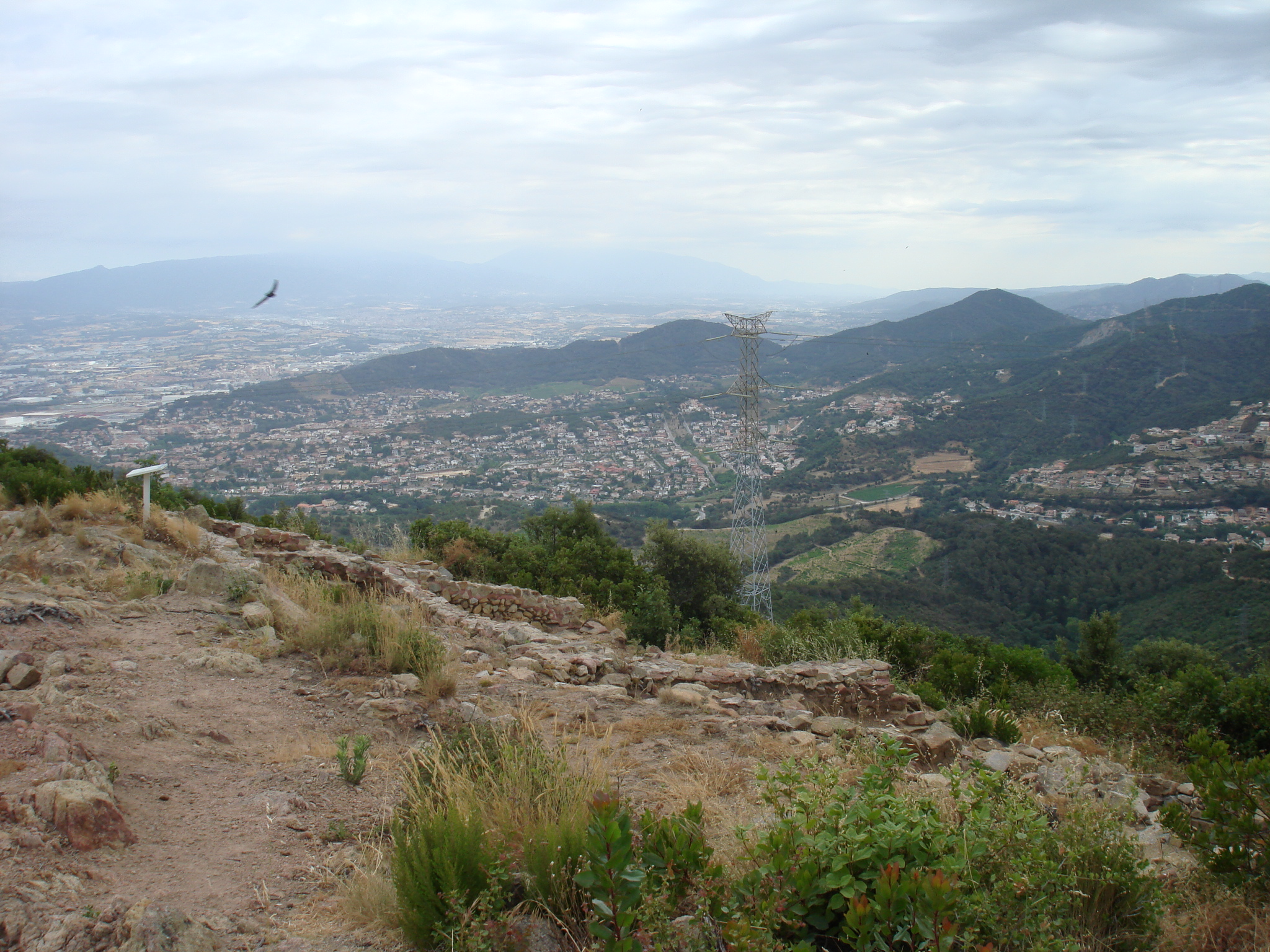 Panoramica desde el Jaciment sobre el Vallès